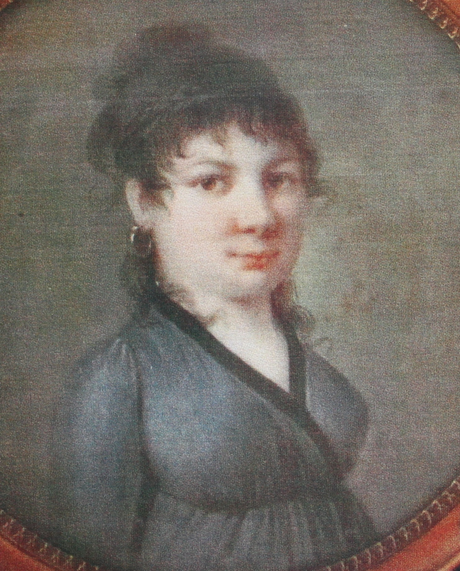 Portrait of Anne Doumenq, a rich young woman whose dowry allowed her husband, Dominique Bouchet-Doumenq, to pursue his botanical interests without having to work as a doctor.